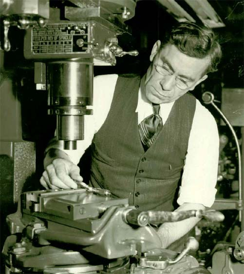 John C. Garand spent the better part of his life perfecting a semi-automatic rifle. On several occasions, as he was within reach of success, the Army changed its specifications, altering the caliber from .30 to .276 and then back again. In the process Garand altered the operating system from primer actuated to gas. Despite the frustrations, he met with success on the eve of World War II, when his rifle would meet its severest test in combat throughout the world.